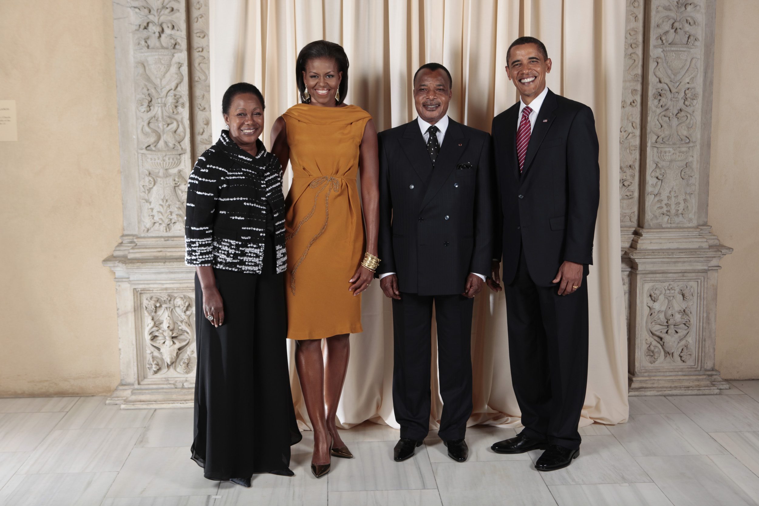 President Barack Obama and First Lady Michelle Obama pose for a photo during a reception at the Metropolitan Museum in New York with Denis Sassou-Nguesso, President of the Republic of the Congo, and his wife, Mrs. Antoinette Sassou-Nguesso.